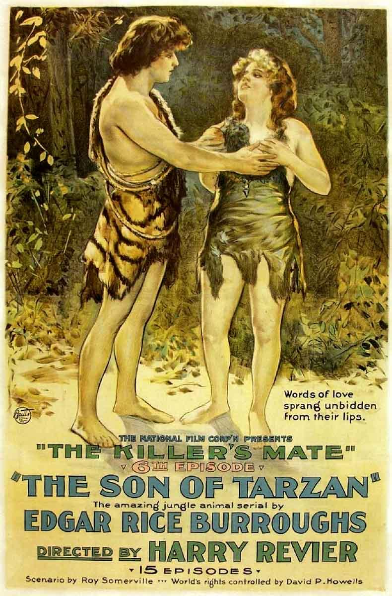 Poster for Chapter 6 of the 1920 film serial The Son of Tarzan.